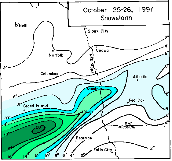 Snowfall totals map, as prepared by the National Weather Service Forecast Office in Valley, Nebraska (USA), of the surprise Eastern Nebraska snowstorm of October 1997. The 200-year snowstorm paralyzed the region as the snow began to fall on October 25 to 26, causing massive power outages, tree damage and much recovery in it's wake. 13.2 inches of snow officially fell in Lincoln and 9.2 inches in Valley.